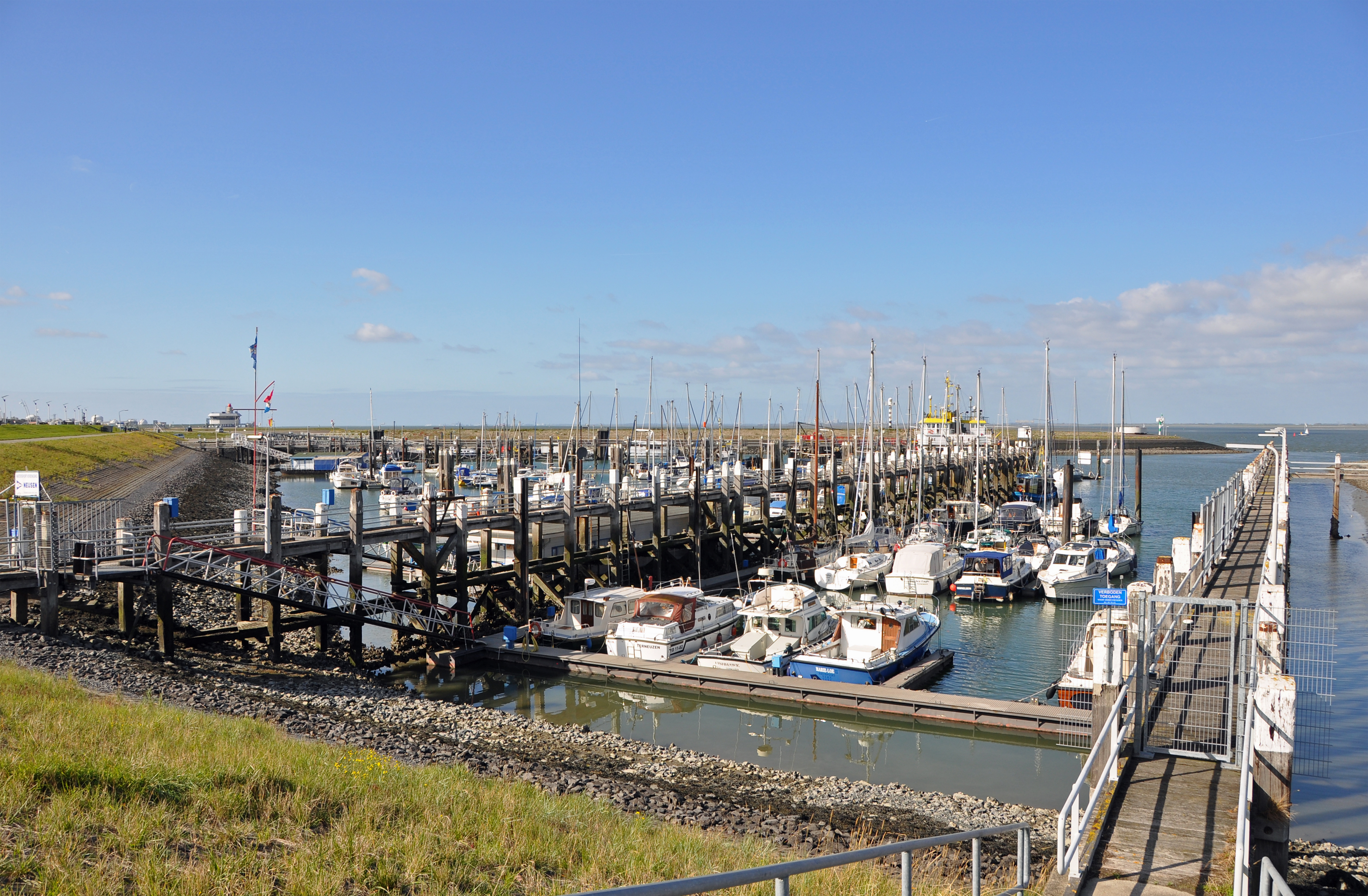 Terneuzen (Netherlands): marina